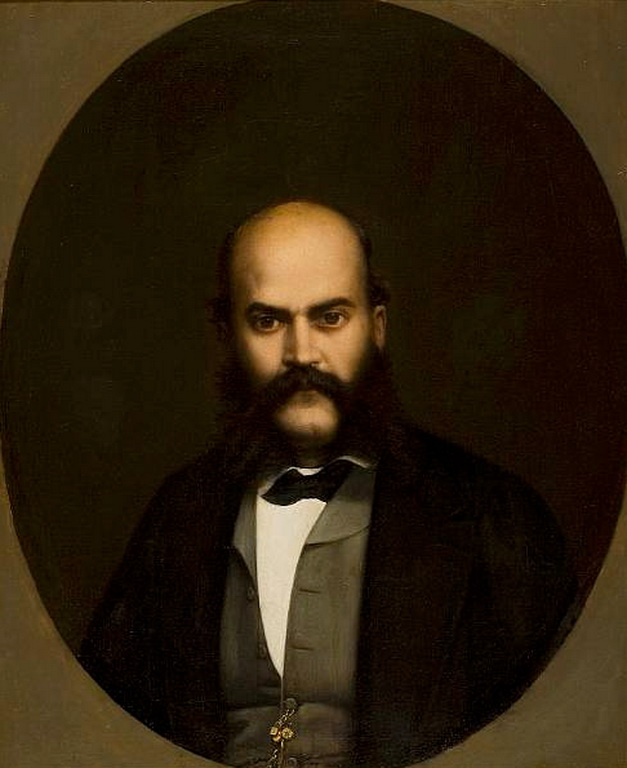 Portrait of a noble man